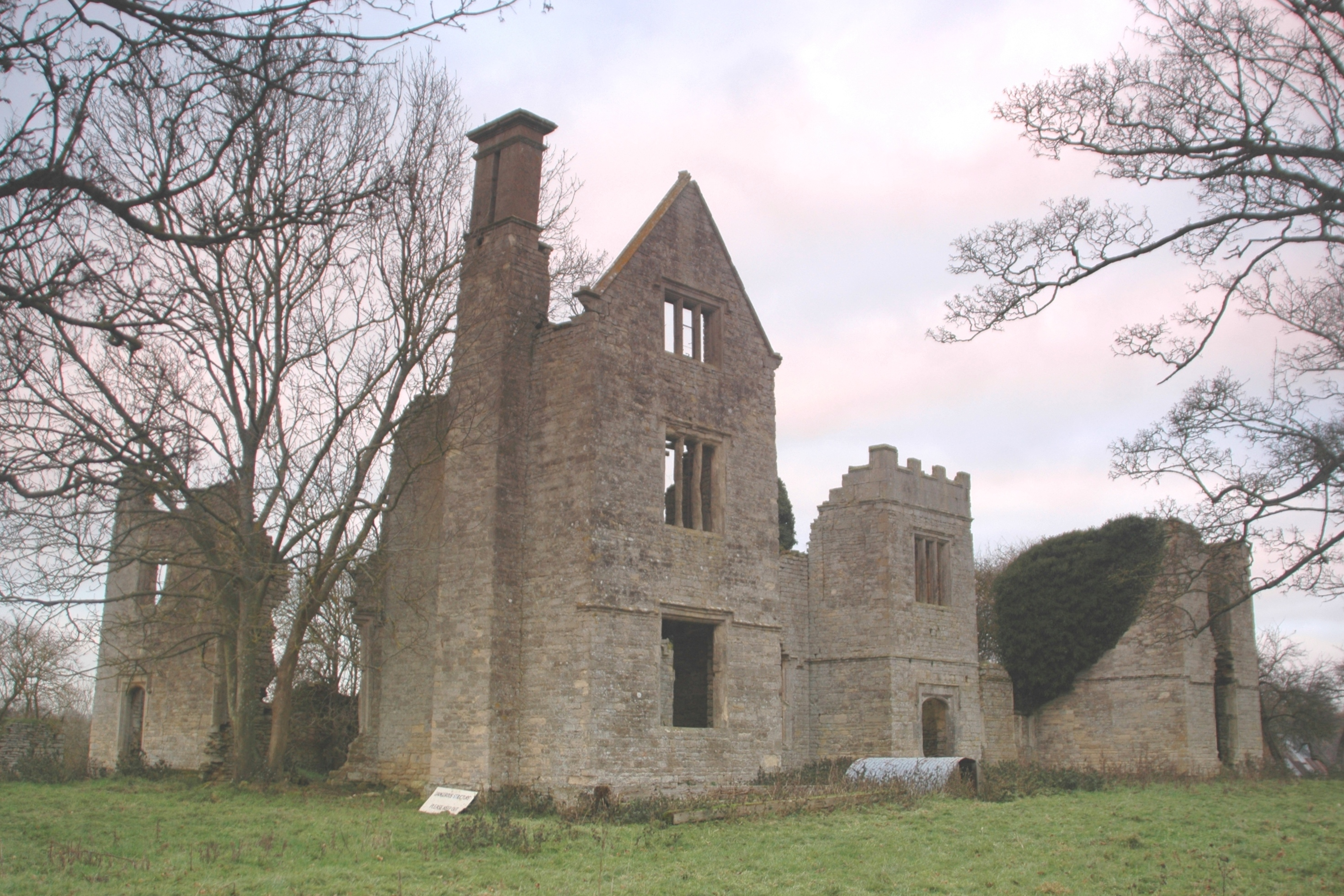 Ruins of Hampton Gay manor house, Oxfordshire, England